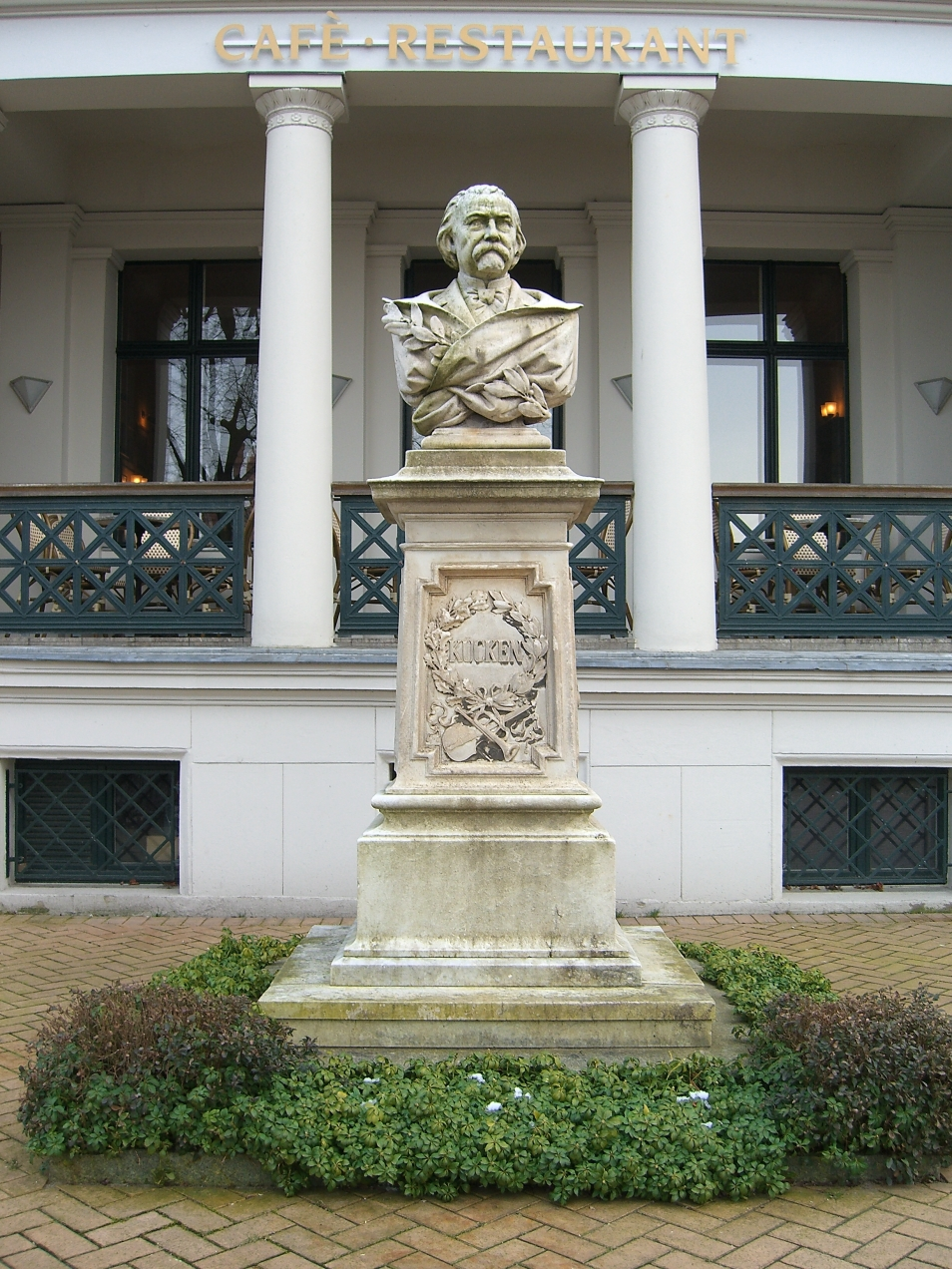 Memorial to Friedrich Wilhelm Kücken in Schwerin, sculpted by Ludwig Brunow in 1885